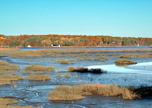 Kennebec River, This photograph was taken by James H. Young, and is released under the GNU FDL.